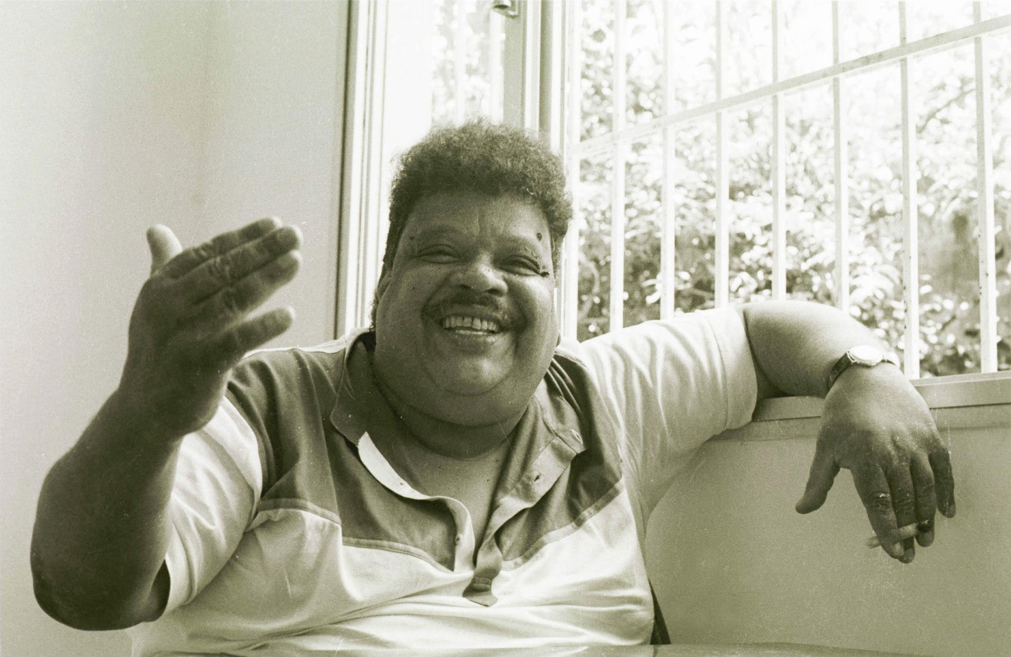 TIM MAIA